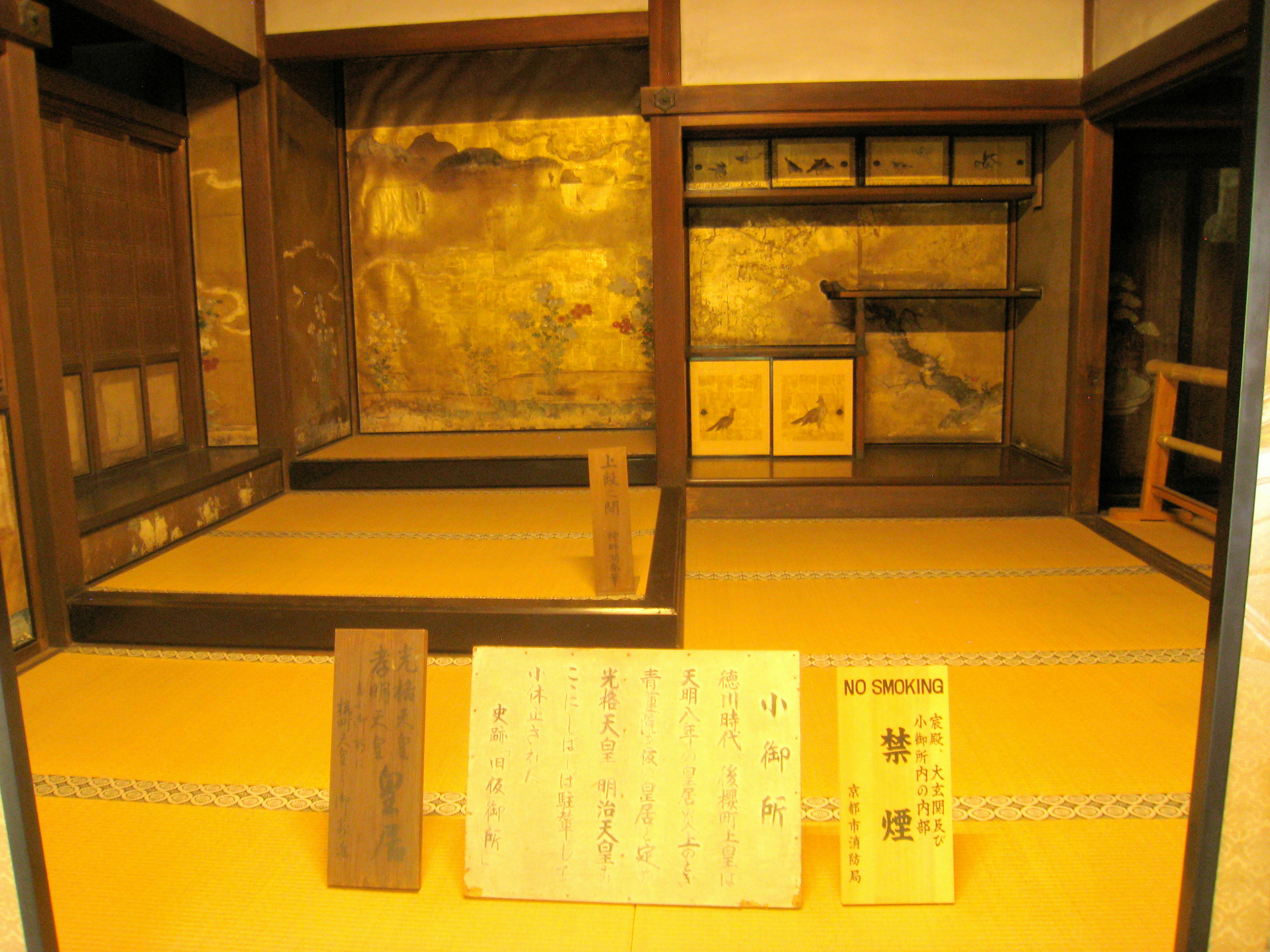 Shōren-in, Kyoto, Japan.